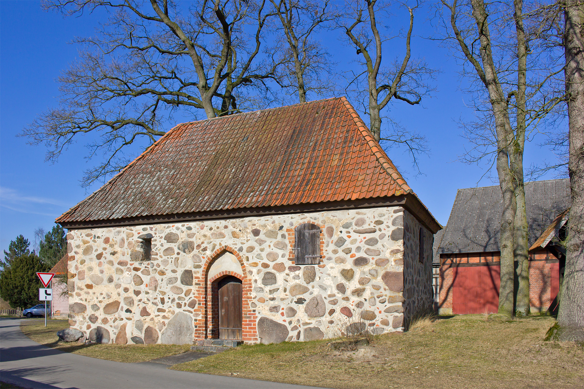 Chapel of the small village Thune (district Lüchow-Dannenberg, northern Germany).